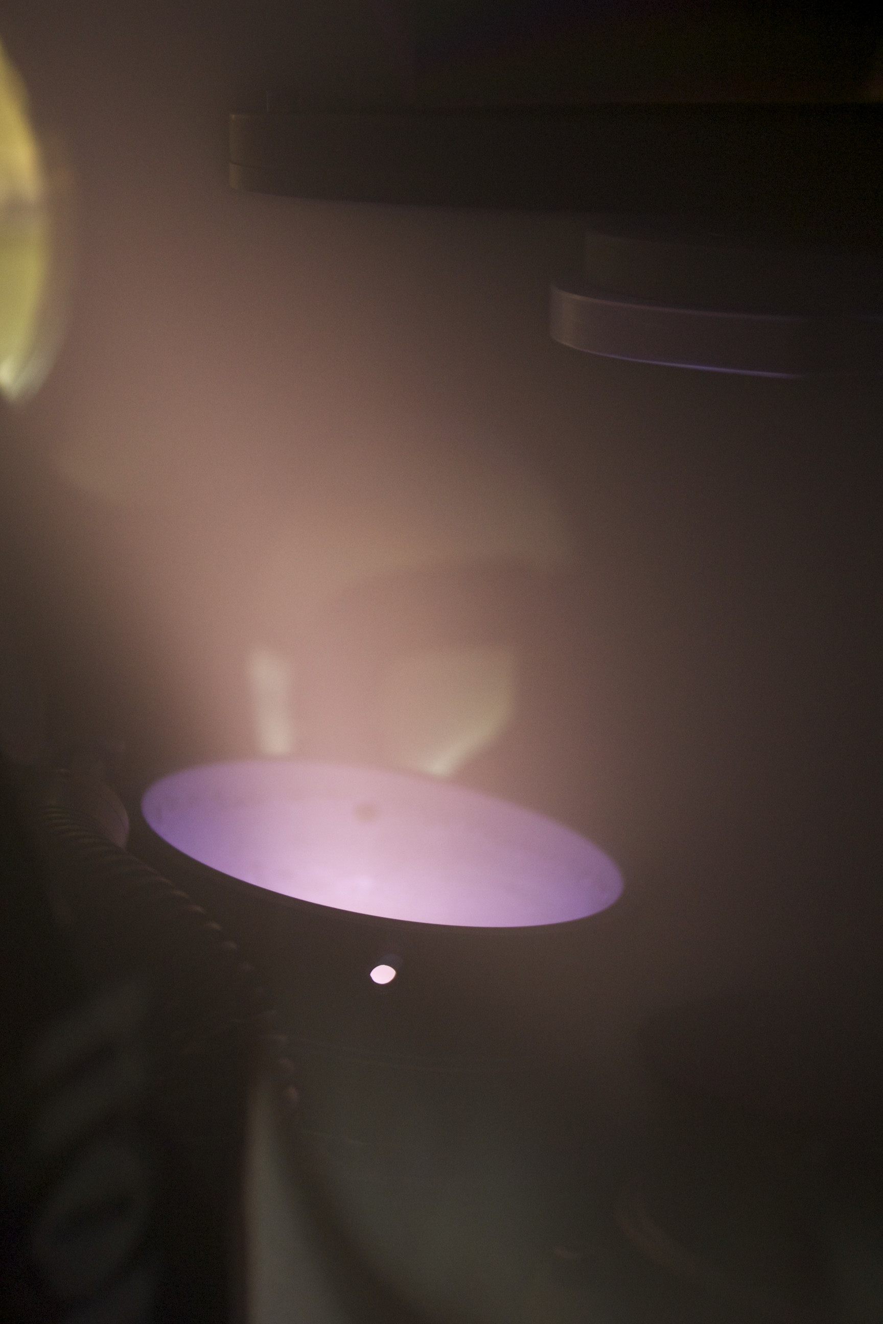 @EPFL